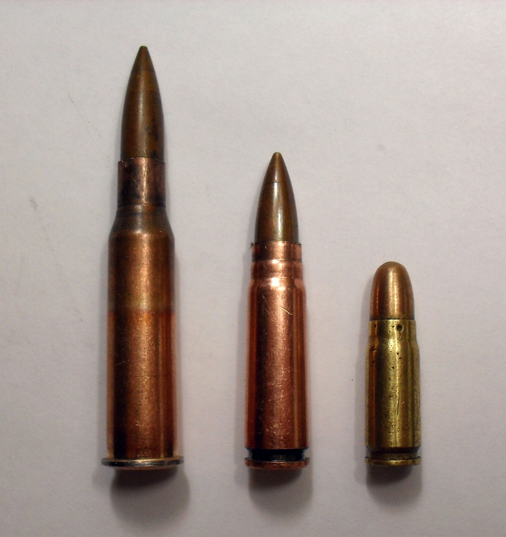 Soviet WW2-era cartridges: 7.62 mm Mosin M1908, 7.62 Syomin-Yelizarov M1943, 7.62 mm Tokarev M1930.